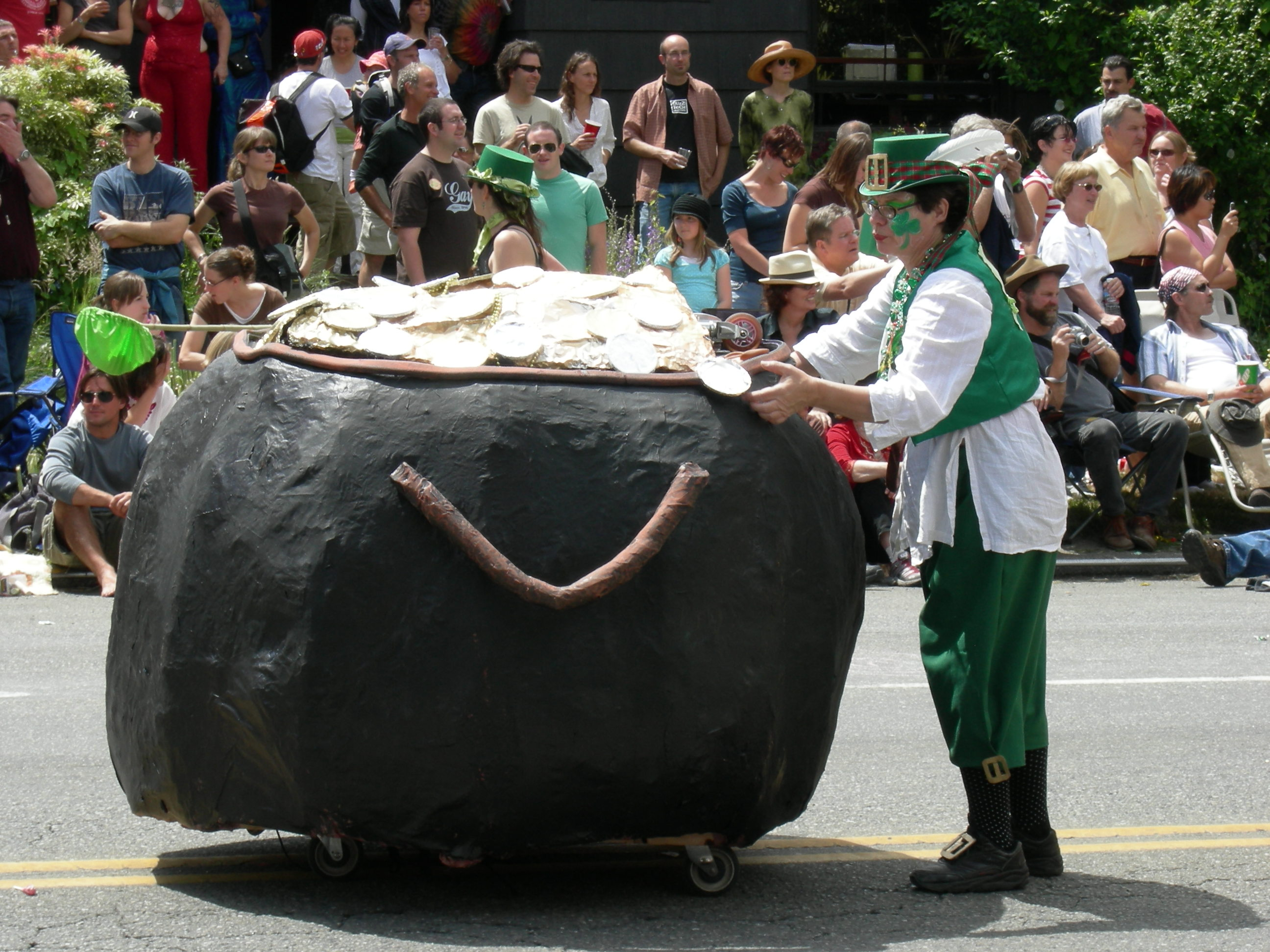 "Leprechauns" at the 2007 Summer Solstice Parade and Pageant, Fremont Fair, Seattle, Washington. The leprechauns "work the crowd" during the parade, raising money for local anti-poverty programs.